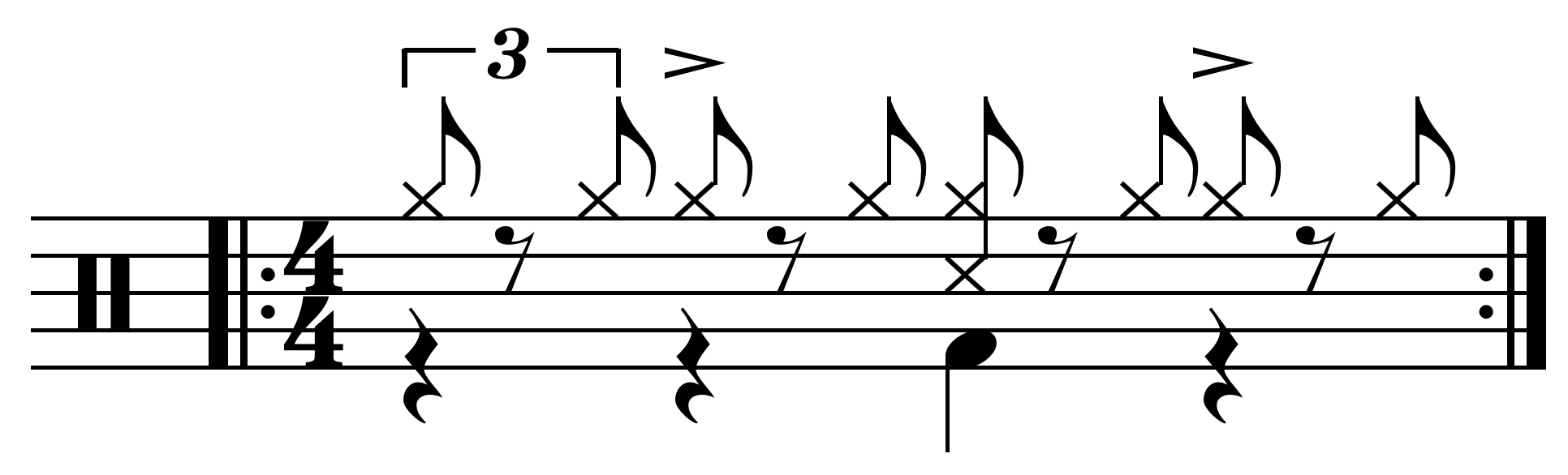 Reggae one drop drum pattern, sixteenth-note variation.